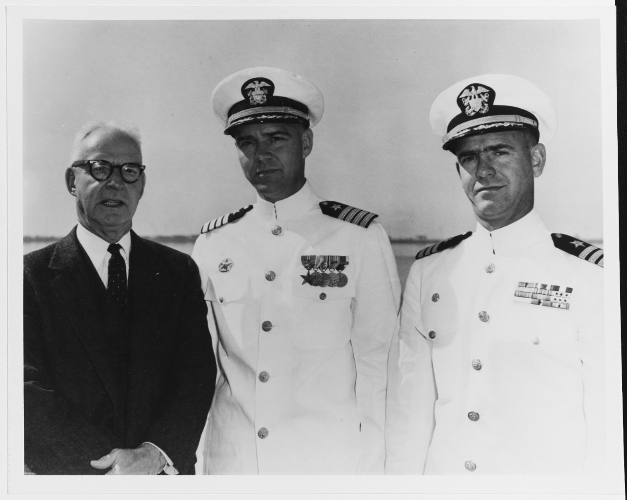 Vice Admiral Robert W. Hayler, USN retired (left) and his sons Captain Robert W. Hayler Jr., USN, and Commander William B. Hayler at Long Beach California where Captain Hayler took command of Destroyer Division 132 (DESDIV-132) in 1961.